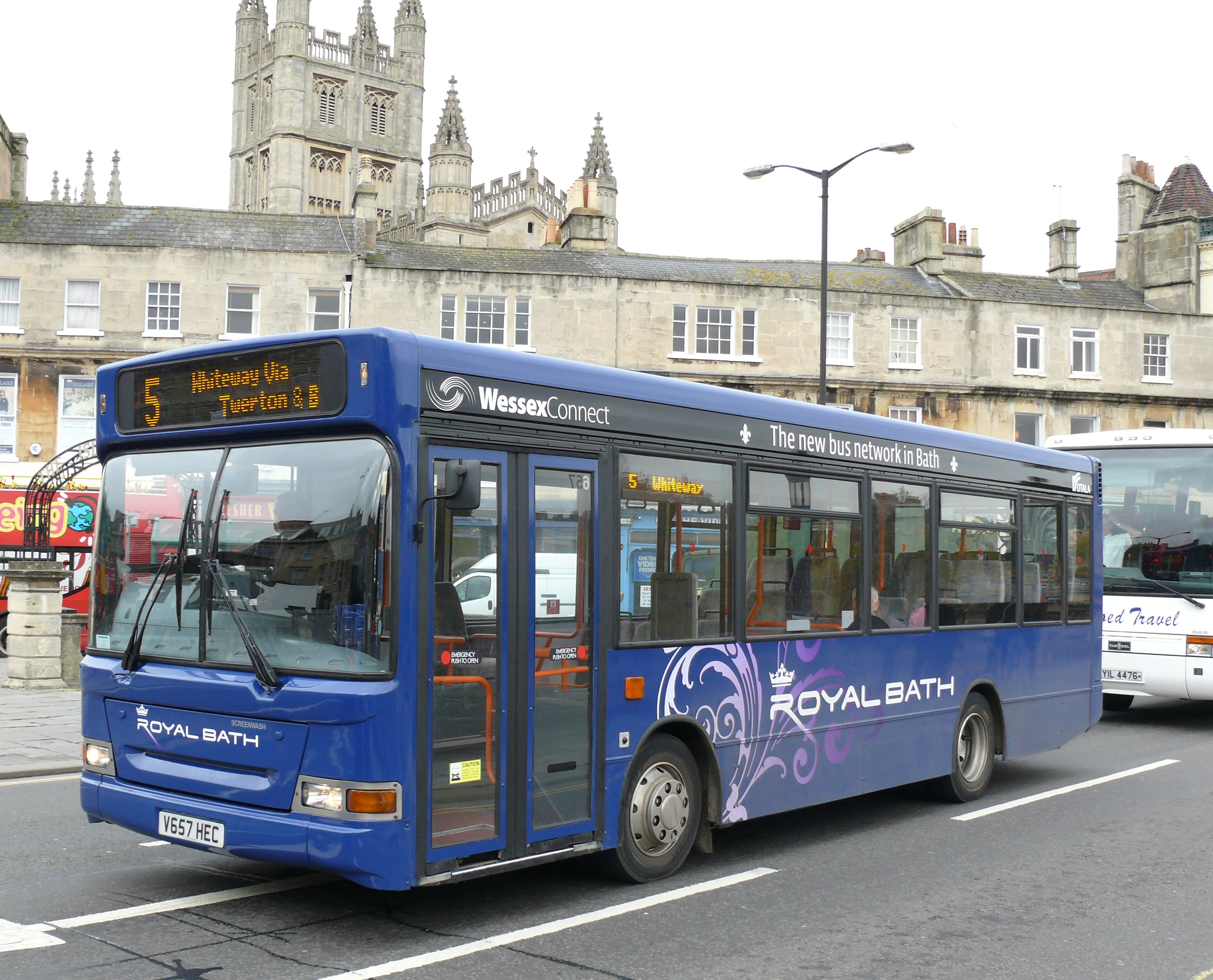 Wessex Connect, a 2000 Dennis Dart SLF with a Plaxton Mini Pointer 2 body work (V657 HEC) on Royal Bath service 5 in Bath .